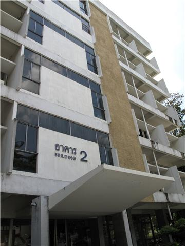 NIDA's Building 2